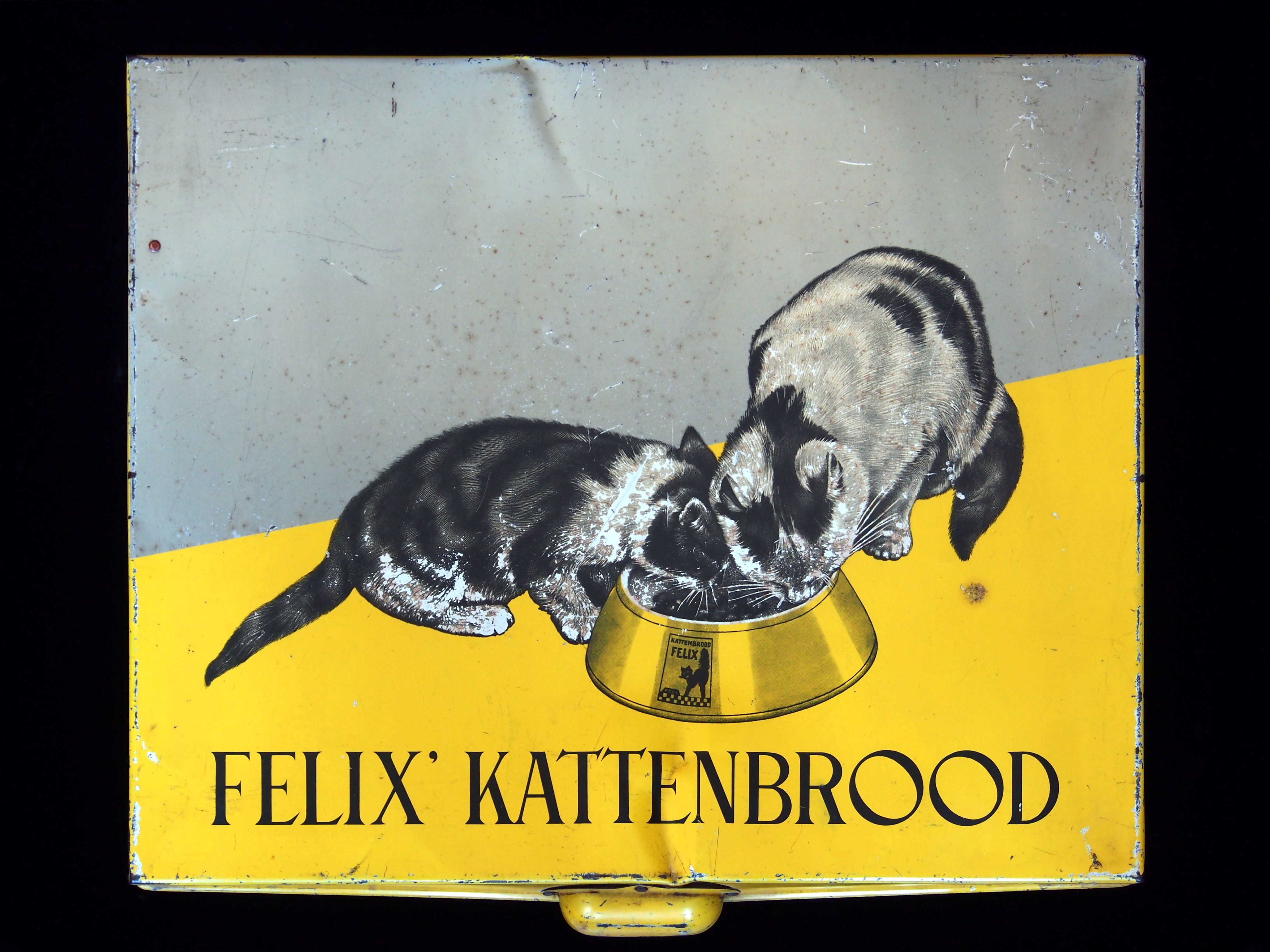 Photographed at a collector of Droste. For info see tincollectors.nl or Very old product that is not produced and not sold any more.